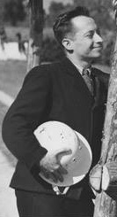 Marcelo Lavalle-actor y director